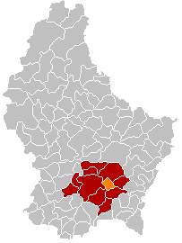 Own edit of Kanton LuxemburgLocatie.png